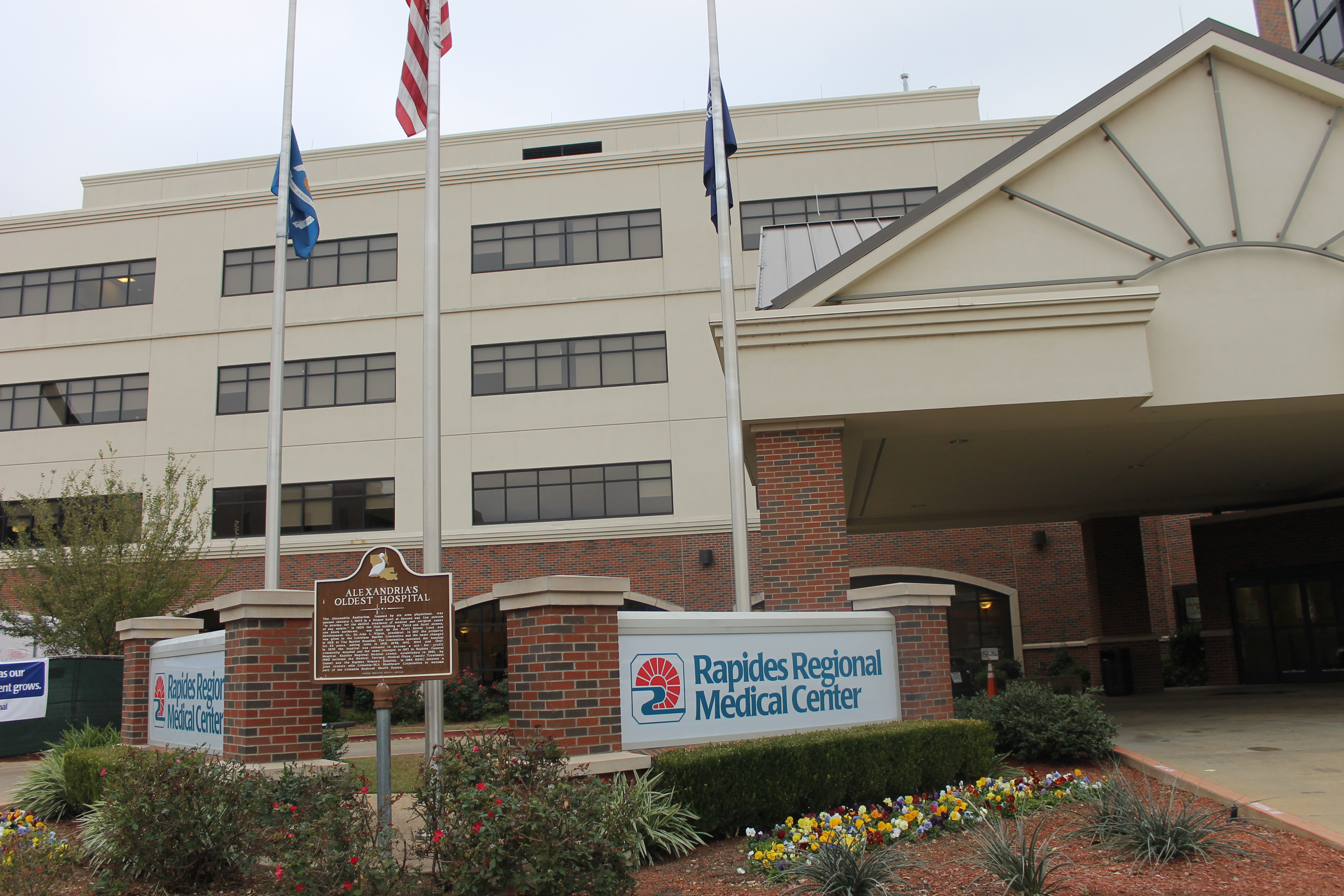 Rapides Regional Medical Center in Alexandria, LA, founded in 1903 as Alexandria Sanitarium